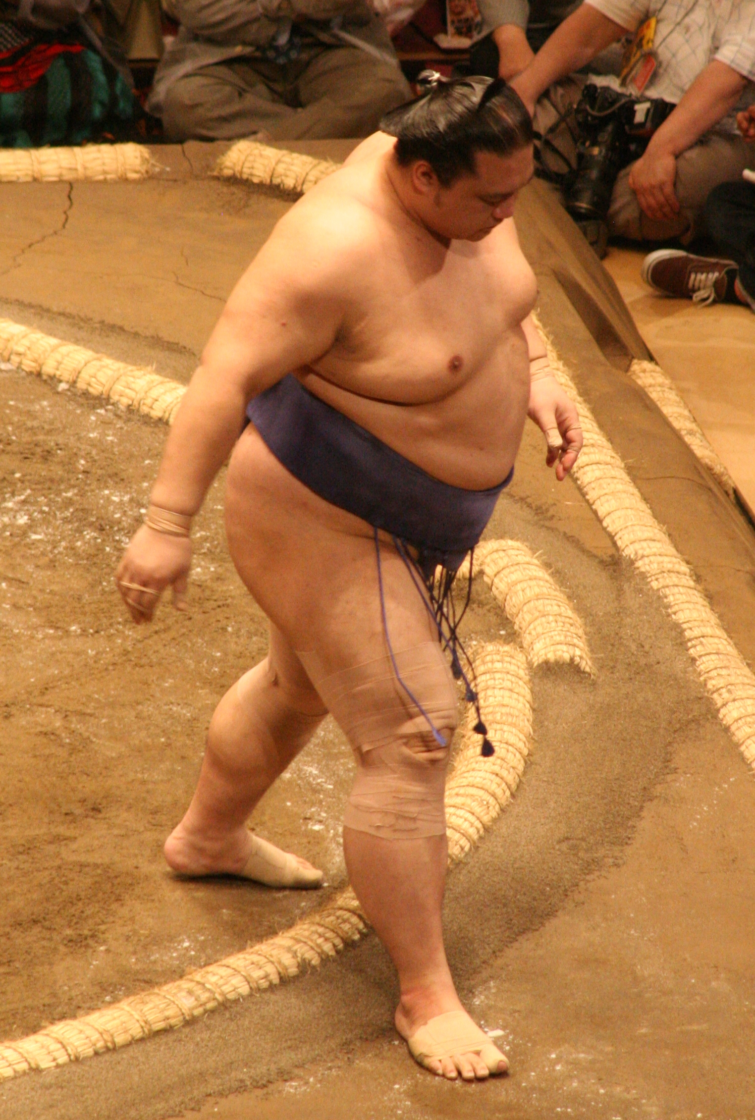 First day of 2009 May Sumo Tournament in Tokyo, Japan - Kaio